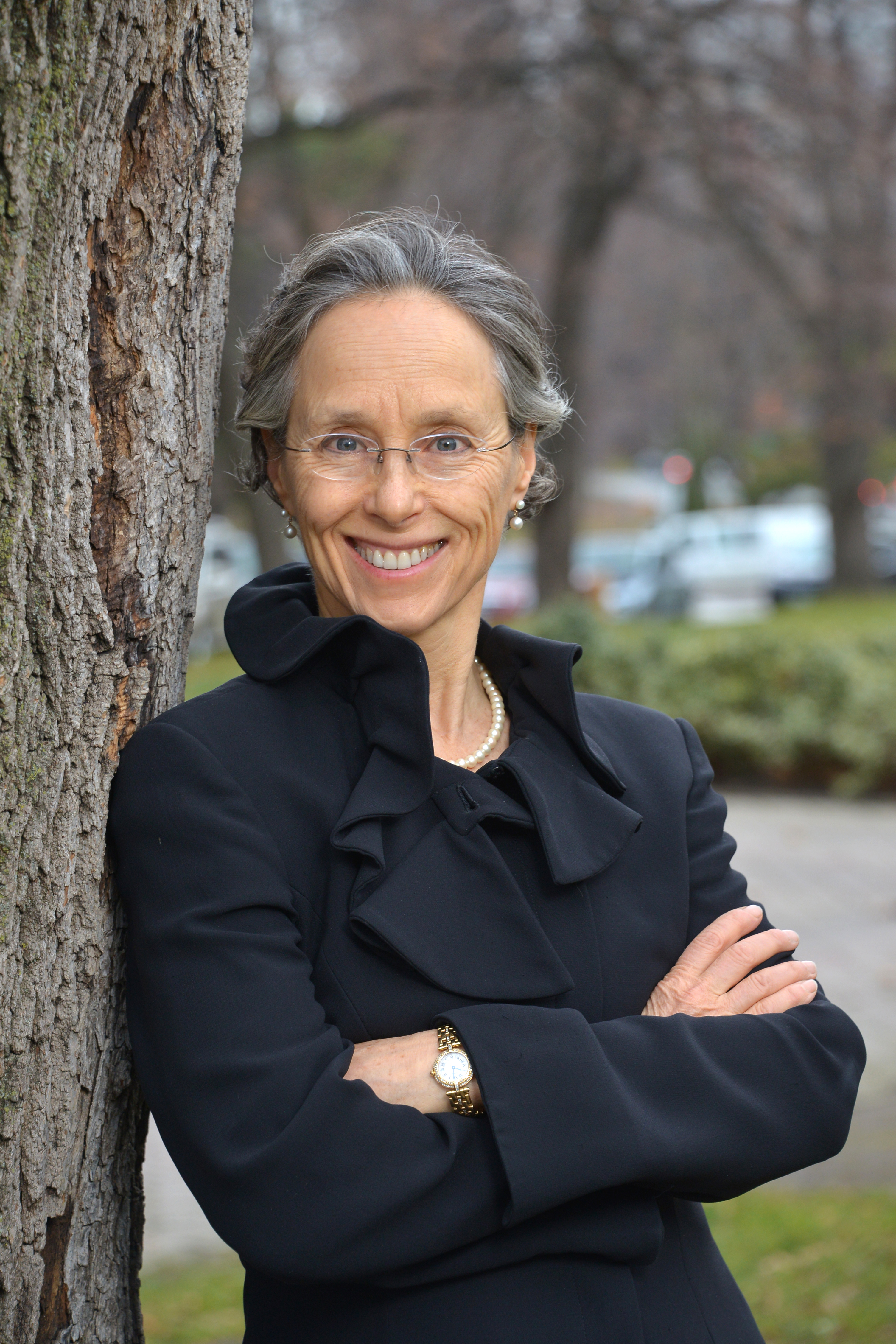 Dianne Saxe, Ontario's 4th Environmental Commissioner of Ontario, standing by a tree with crossed arms